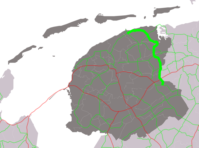 Map of Friesland with Dutch provincial road no. 358